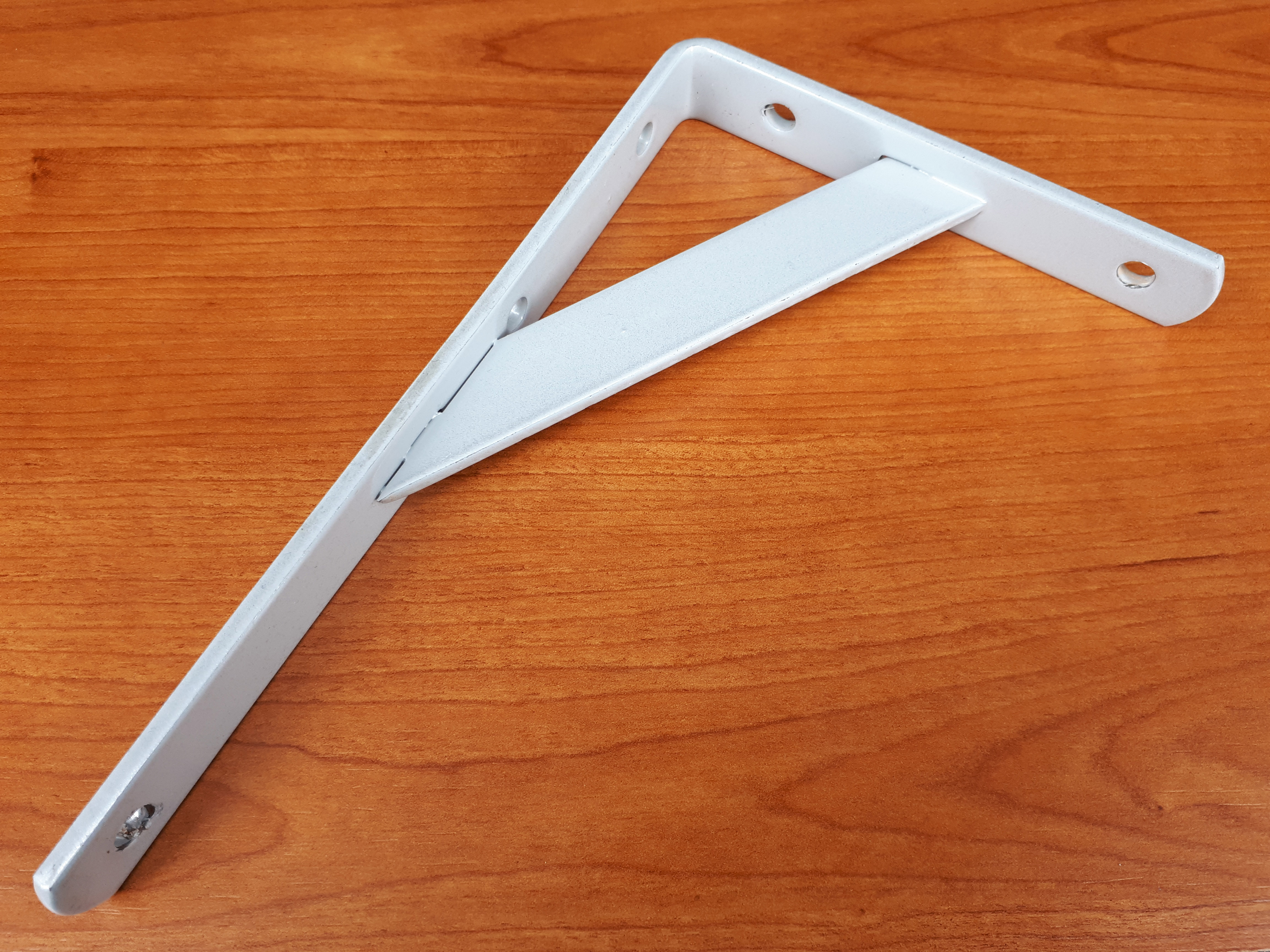 Gray metallic shelf bracket - 20 x 12 cm. Width: 2 cm. Thickness: 4 mm Also named 'Heavy duty shelf bracket'.